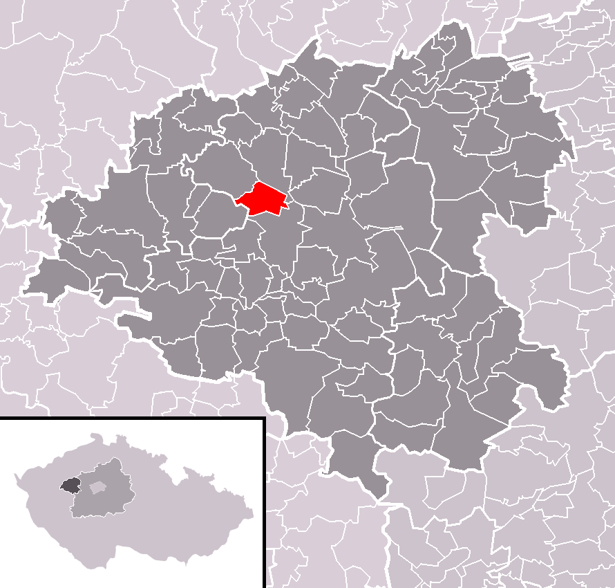 Location of Přílepy municipality within Rakovník District and (identical) administrative area of Rakovník as a Municipality with Extended Competence.